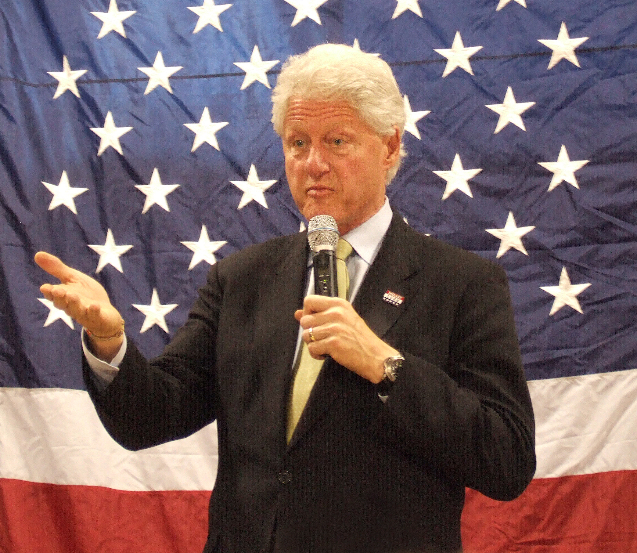 Hillary Clinton Rally March 27th, 2008.